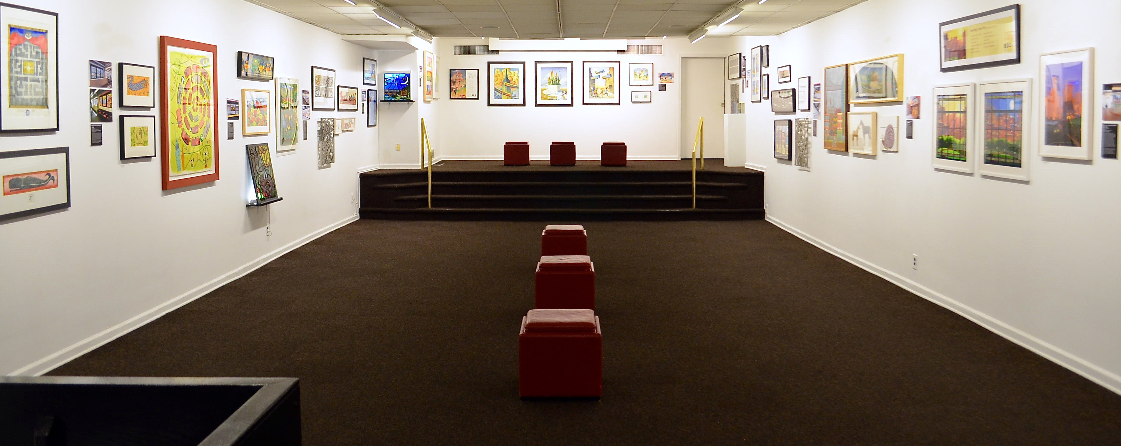 Installation detail at the New York View exhibit at The Museum of American Illustration presented by Society of Illustrators and commissioned by MTA Arts & Design. Photo: MTA Arts & Design / Rob Wilson